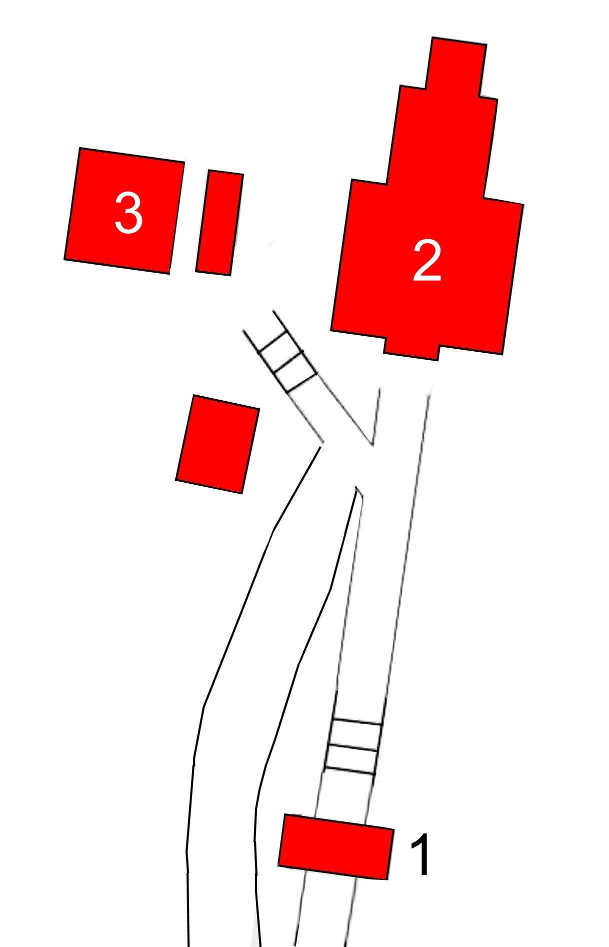 Layout of Kumadani Temple at Awa, Tokushima Prefecture